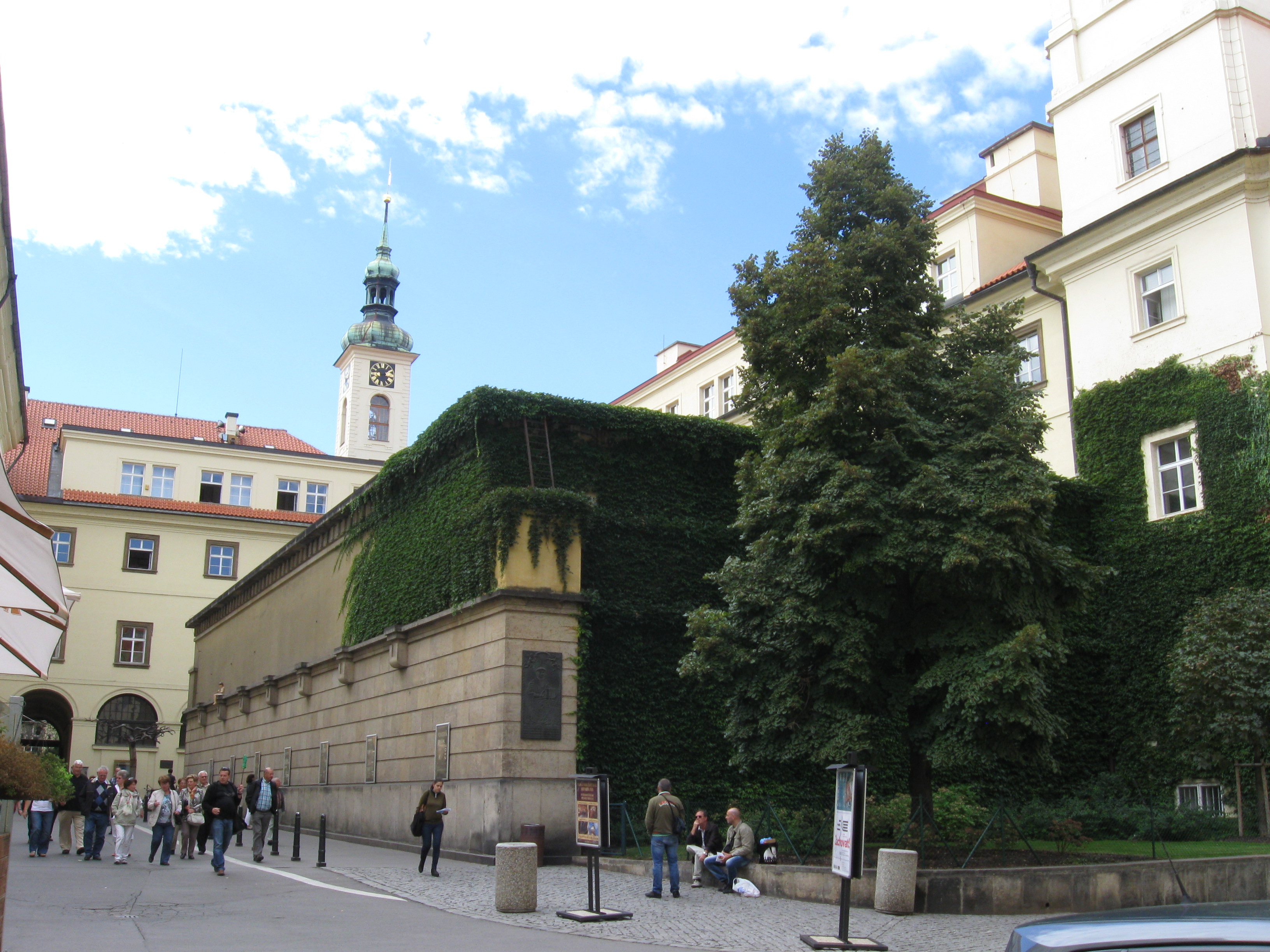 Klementinum, Prague